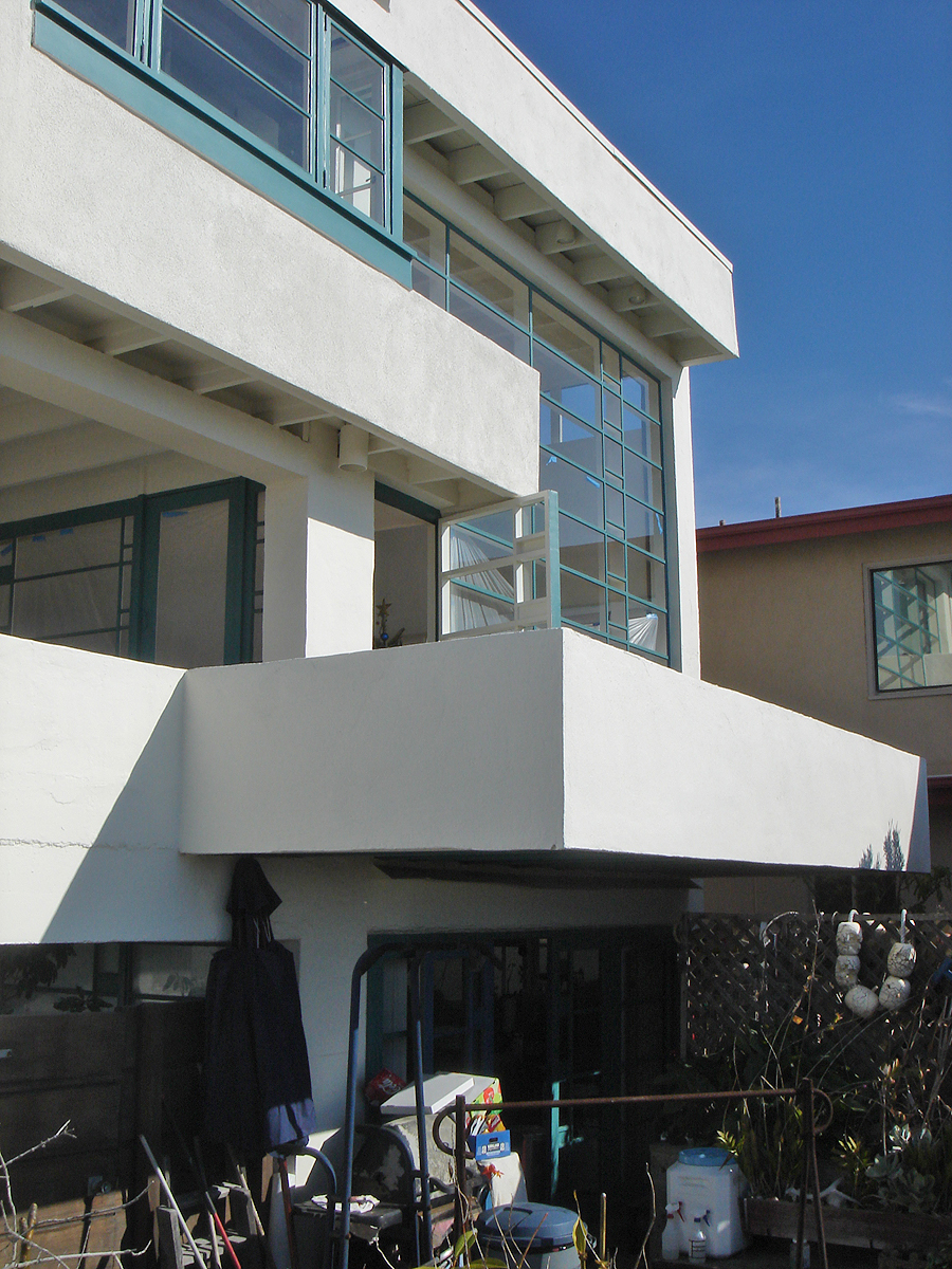 Front, detail, towards the patio.